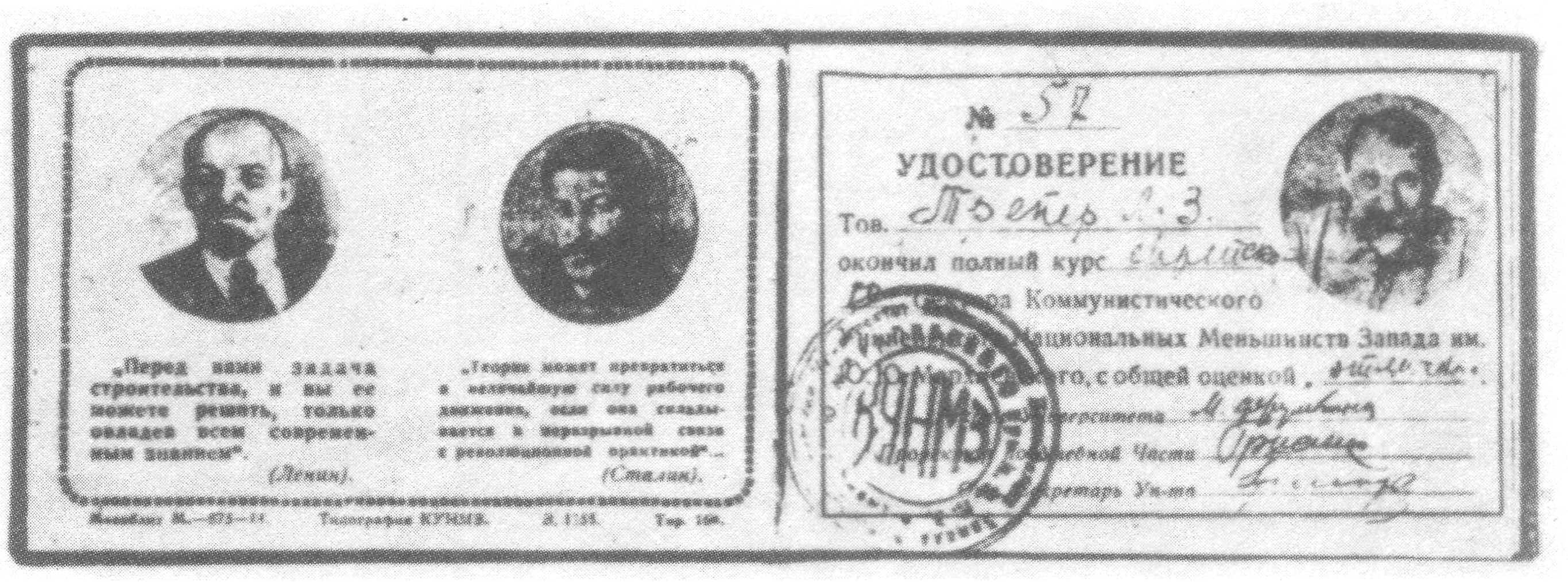 certificate of Communist University of the National Minorities of the West